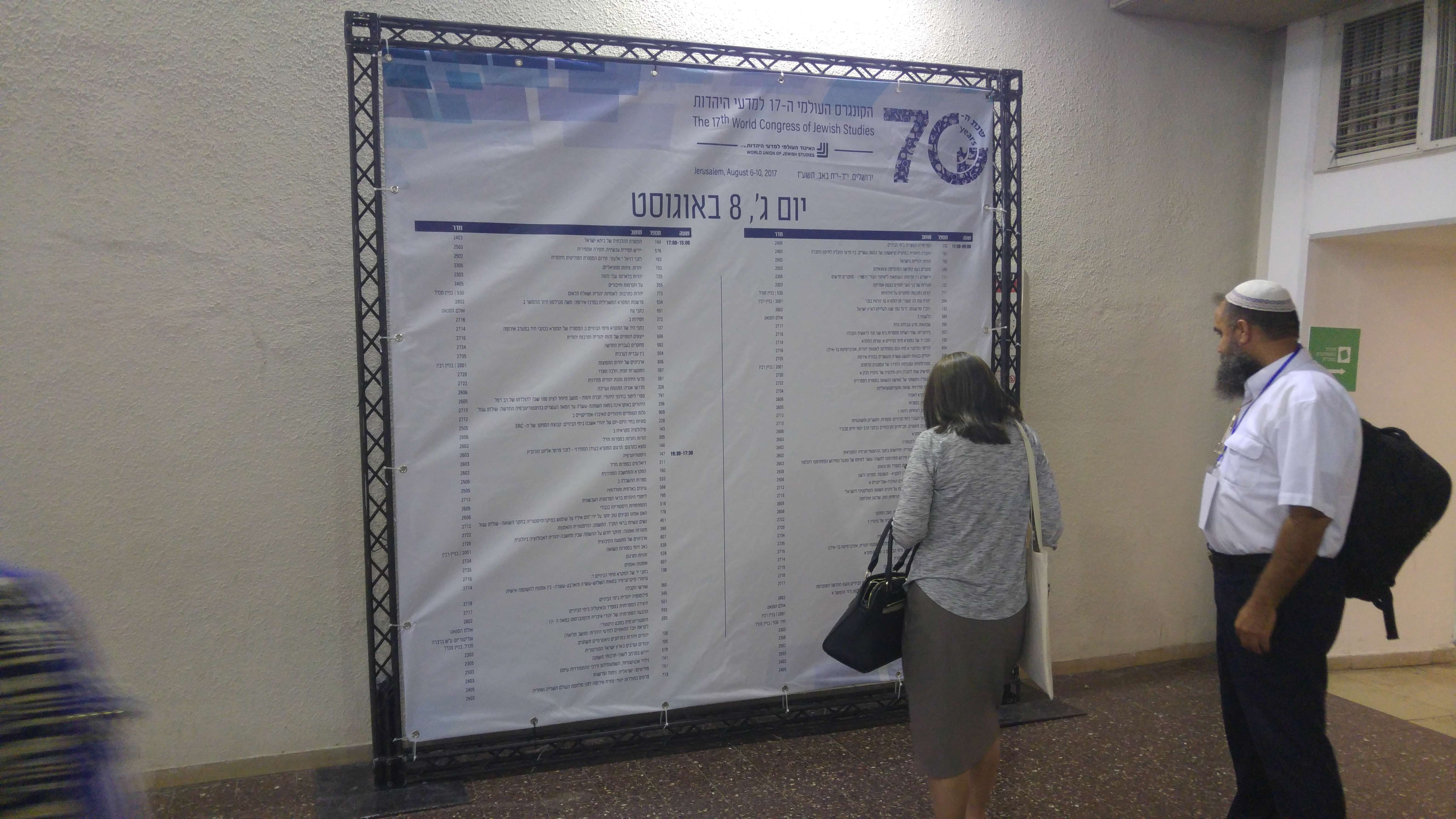 Atendees at the 17th World Congress for Jewish Studies watch the day's program